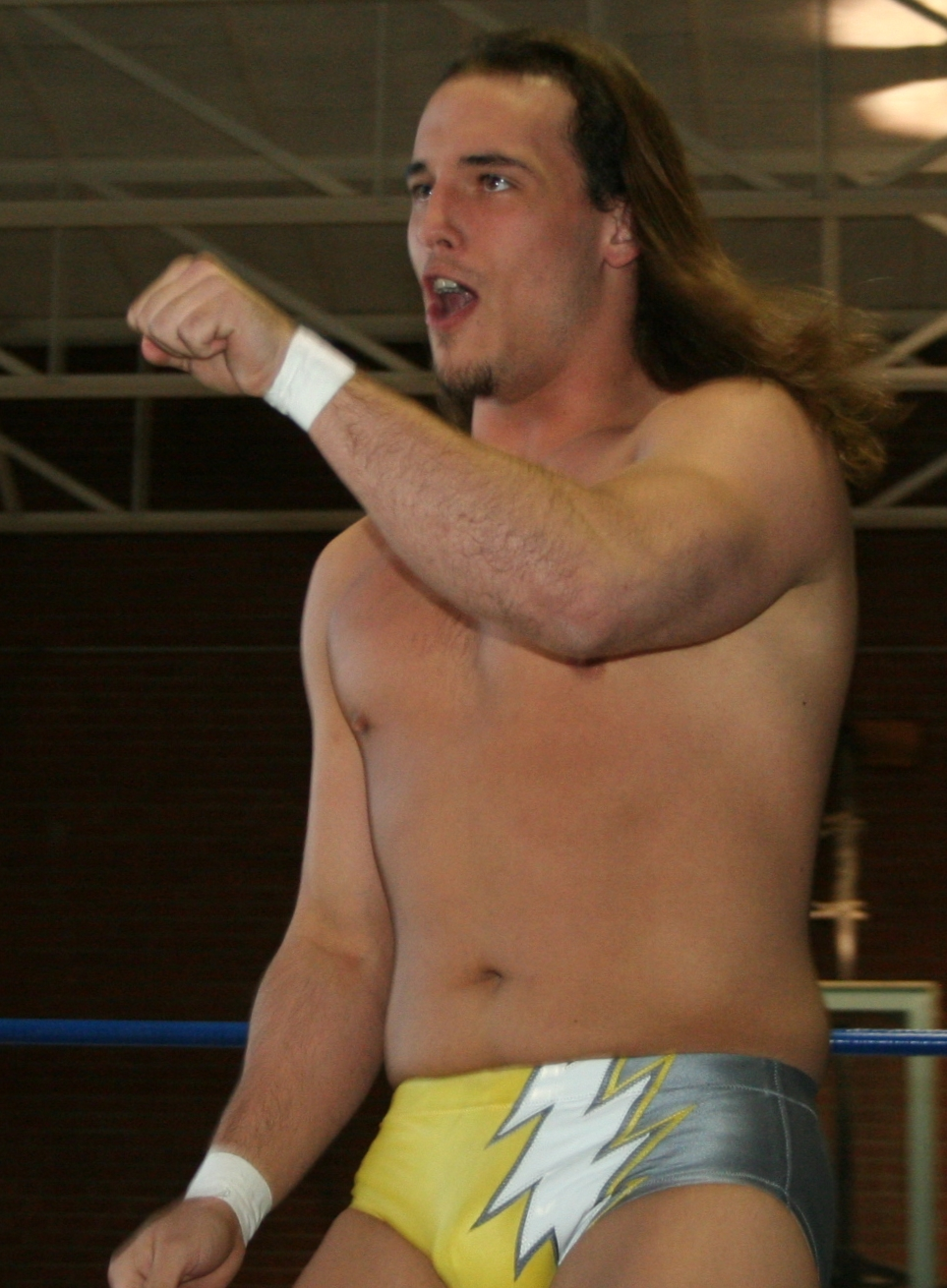 Professionnal wrestlier Andrew Everett in 2014.